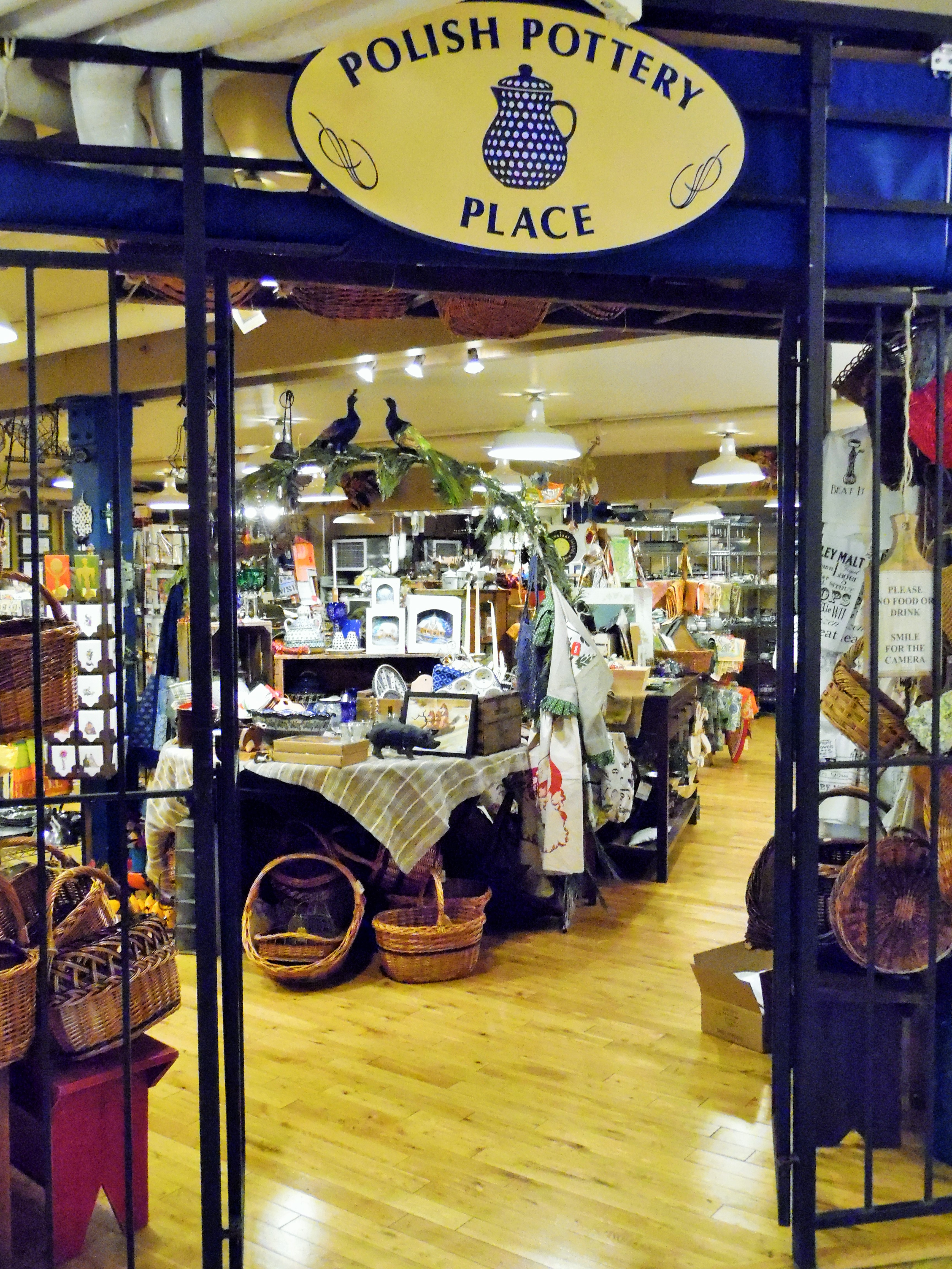 Seattle